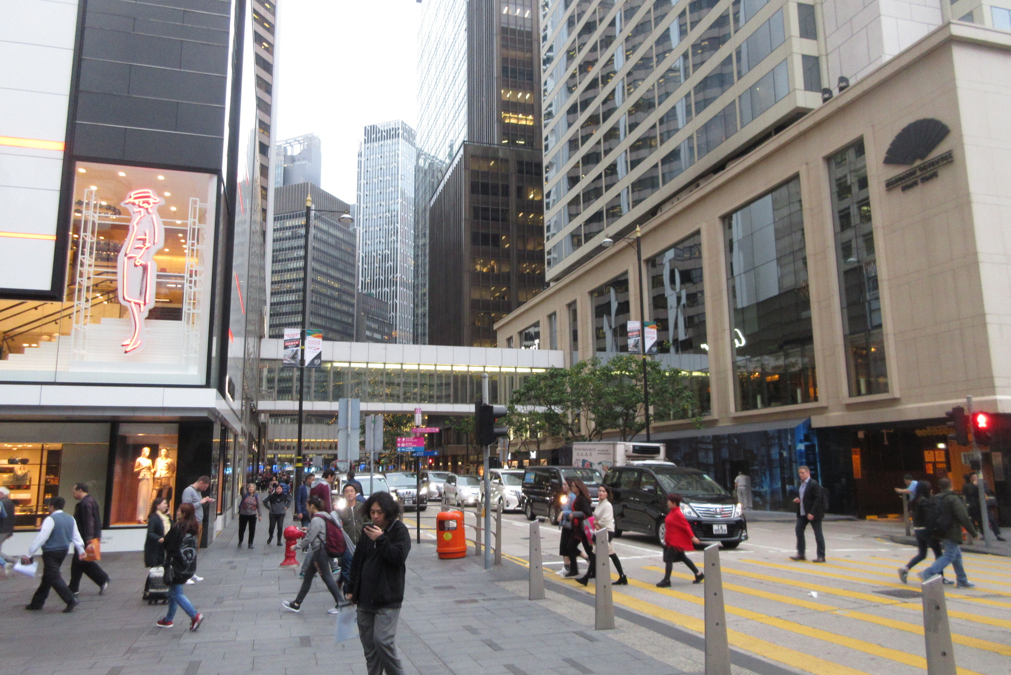 HK 中環 Central 太子大廈 Prince's Building in January 2018